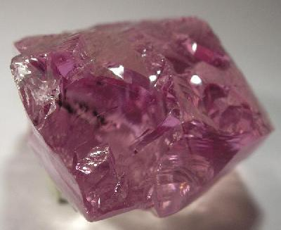 Spodumene Locality: Urucum mine (Tim mine; Córrego do Urucum pegmatite), Galiléia, Doce valley, Minas Gerais, Southeast Region, Brazil (Locality at ) Size: miniature, 4 x 2.3 x 1.9 cm Spodumene var. Kunzite This is a fine, small Kunzite specimen. The color is a nice pink uniform throughout the crystal, the luster and gemminess are superb, and, to add interest, the crystal is twinned. An excellent aesthetic miniature. And totally gemmy. Ex. Wendell E. Wilson Collection.